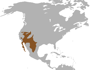 Kit Fox range